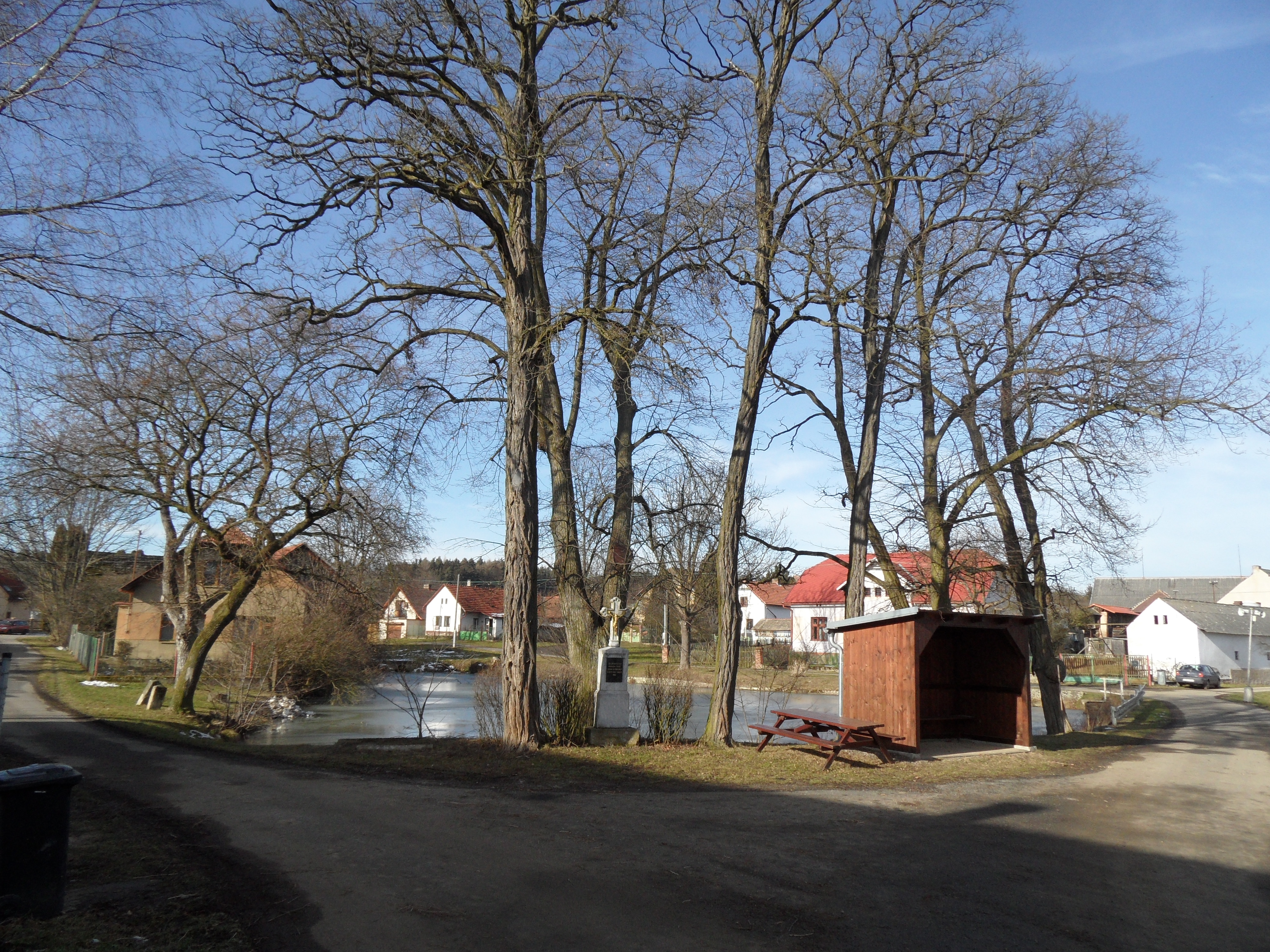 Předbořice (Černiny) A. Overview of Village Square, Kutná Hora District, the Czech Republic.